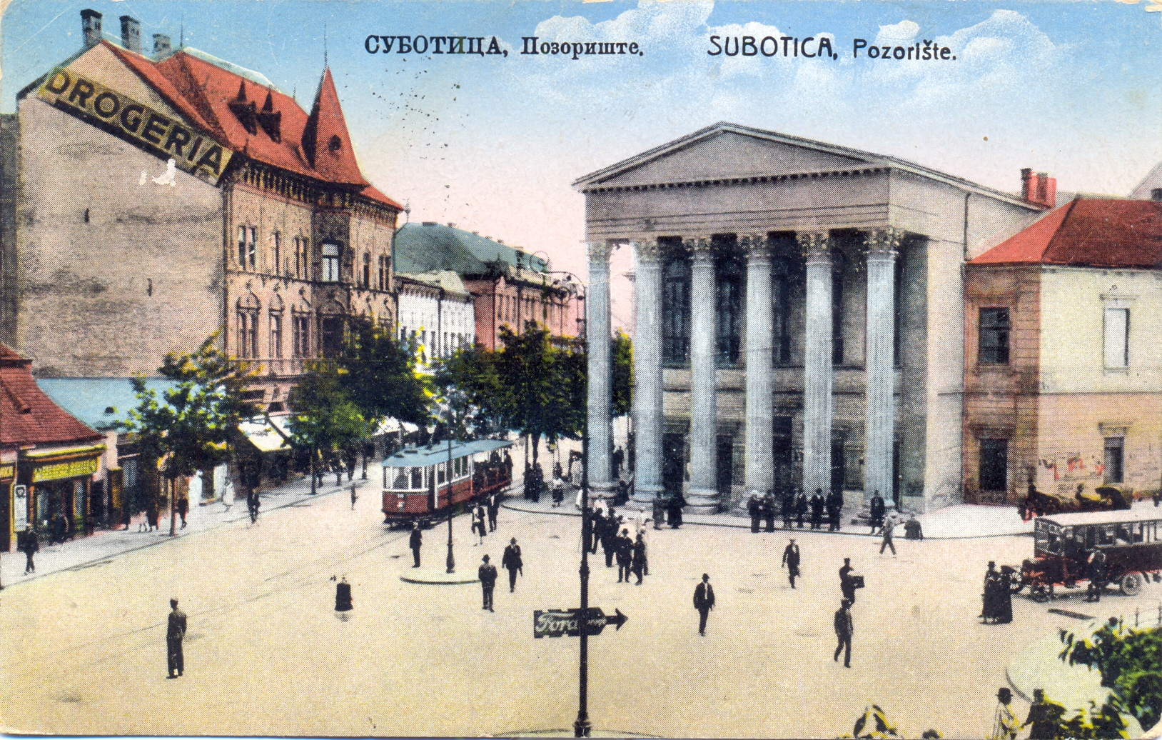 Postcard of Subotica with a picture of National Theatre (early 20th century). Srpski (latinica): Razglednica Subotice sa slikom Narodnog pozorišta (početak 20. veka).